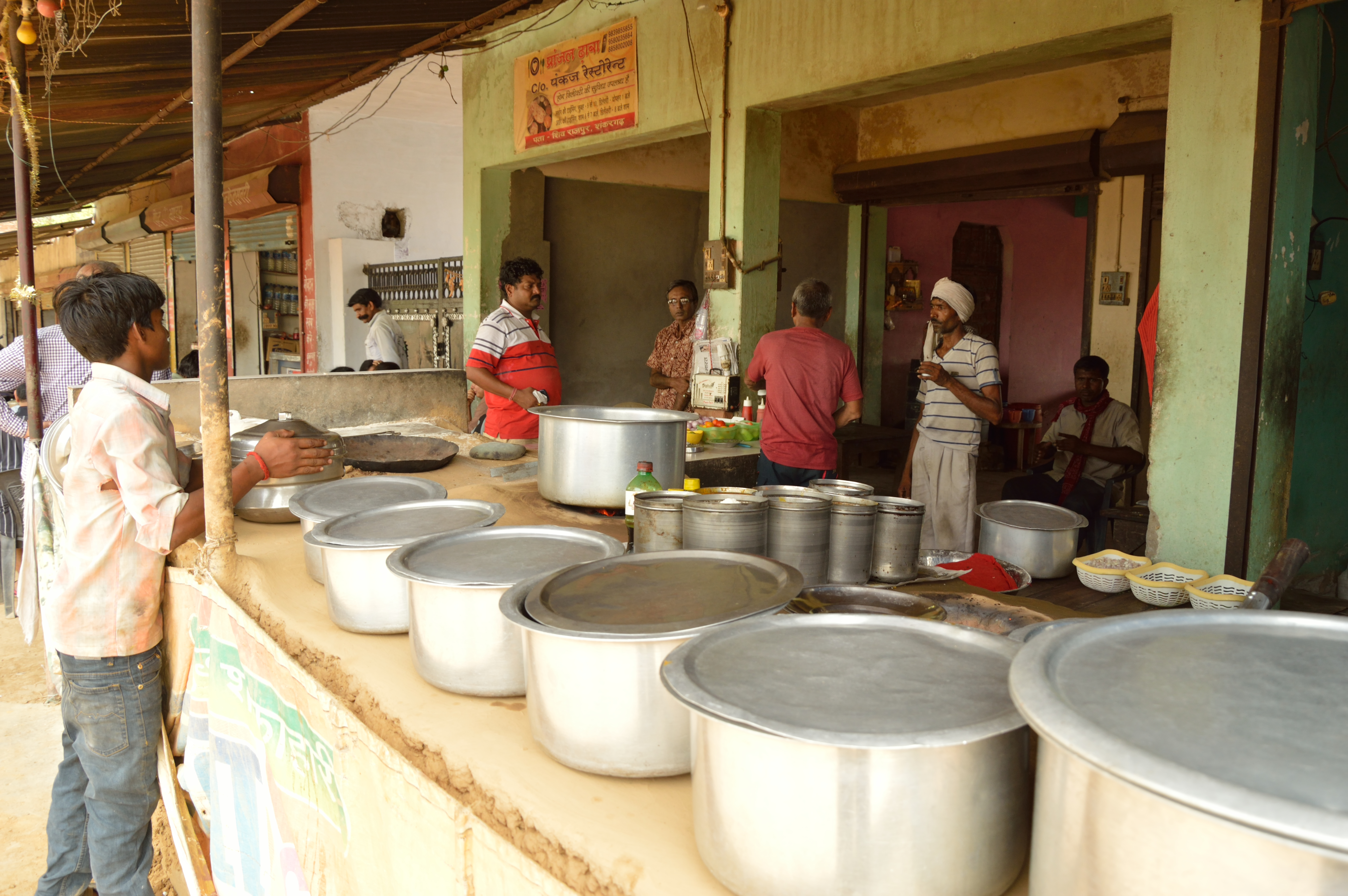 Photographed in Uttar Pradesh (UP), India.